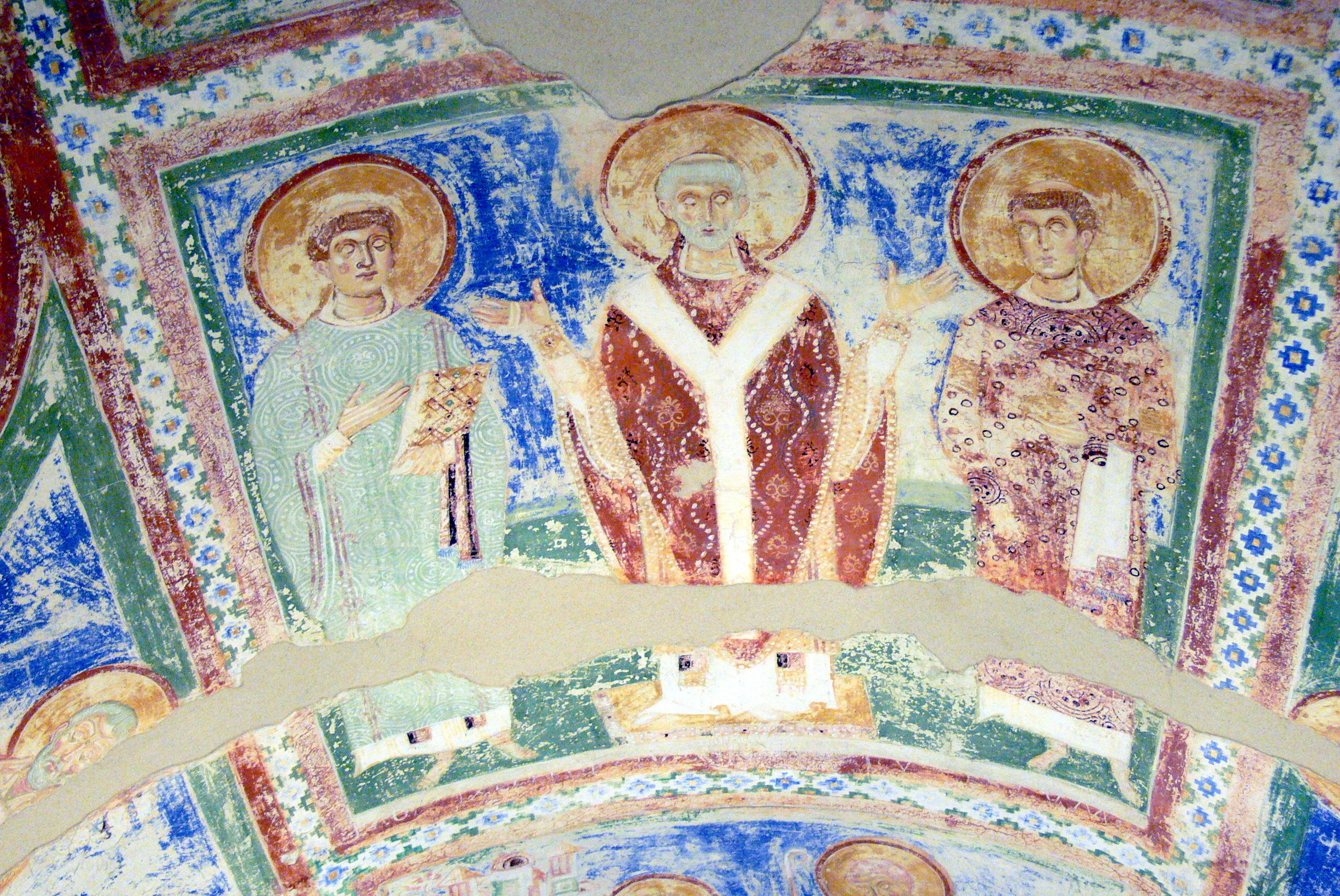 Patriarch's basilica, Aquileia. Frescos ( 12th century ):Saint Hermagoras, flanked by saints Fortunatus and Syrus.